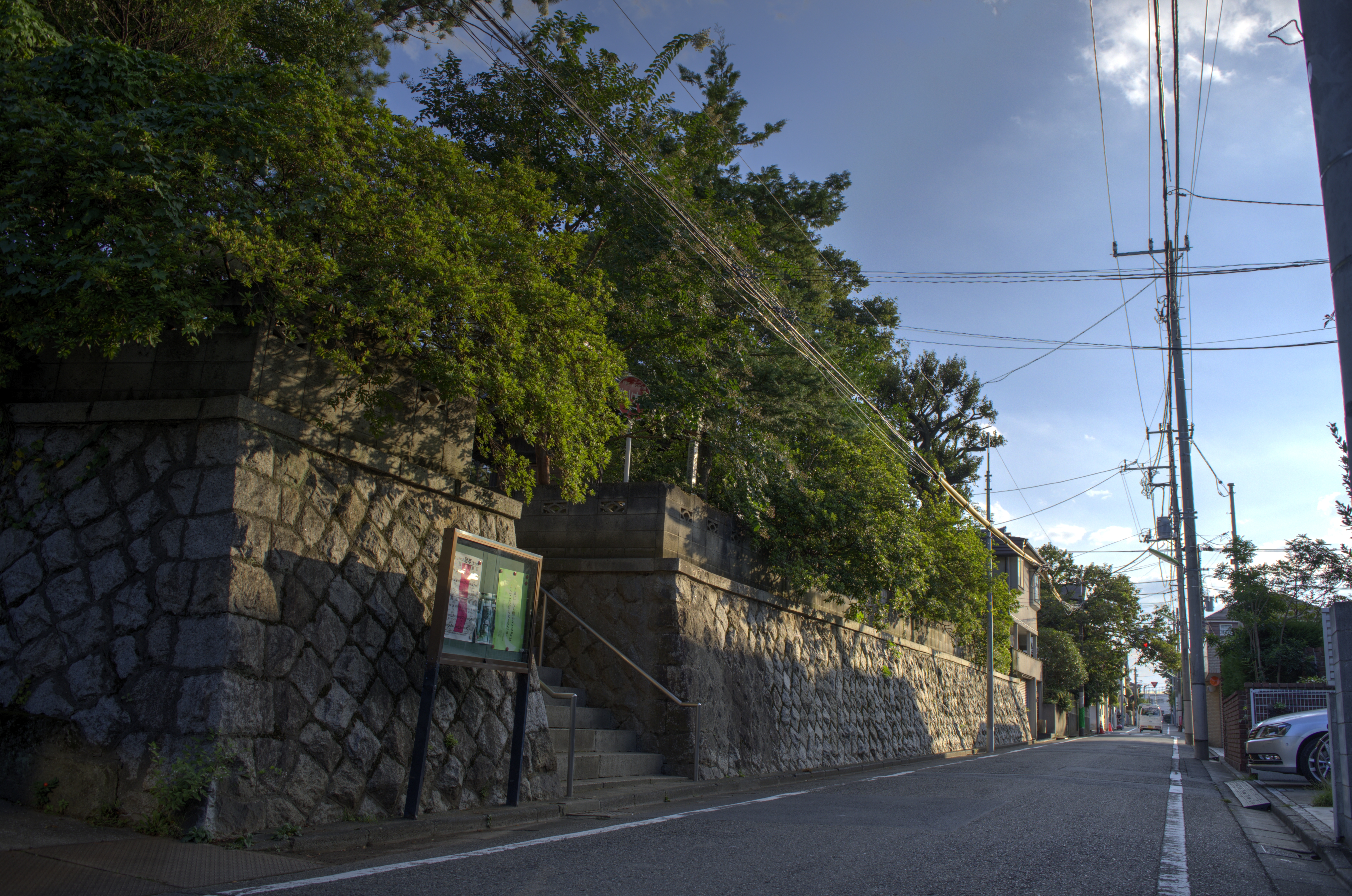 Higashi Tamagawa, Setagaya-ku, Tokyo, Japan on September 2014.